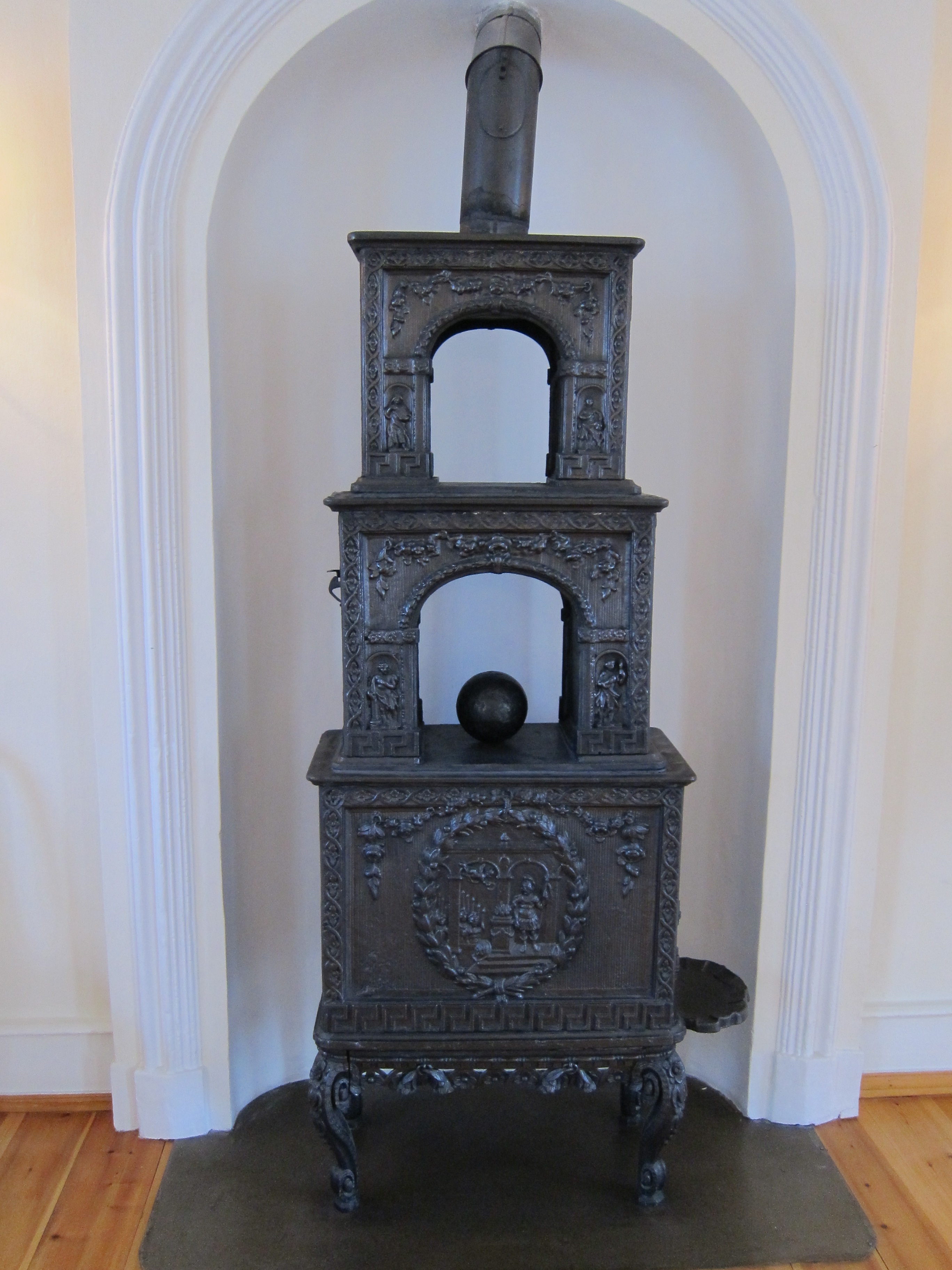 Iron cast oven, the oven was manufactured at Moss Jernverk (Moss Ironworks), in Moss, Norway. It is on display at the Moss Jernvek old administration building (konvensjonsgården) in Moss.